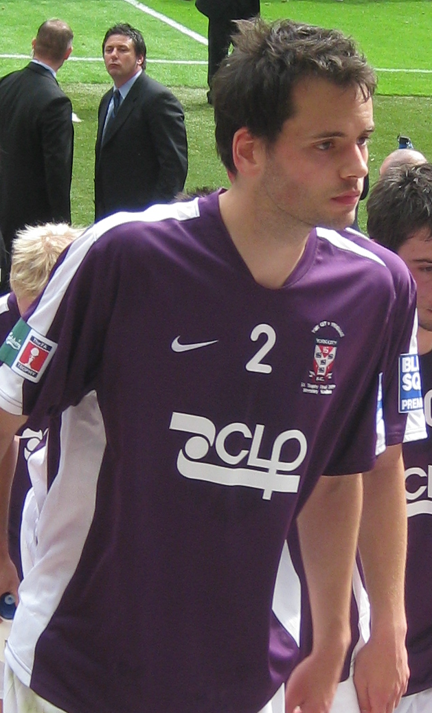 Ben Purkiss